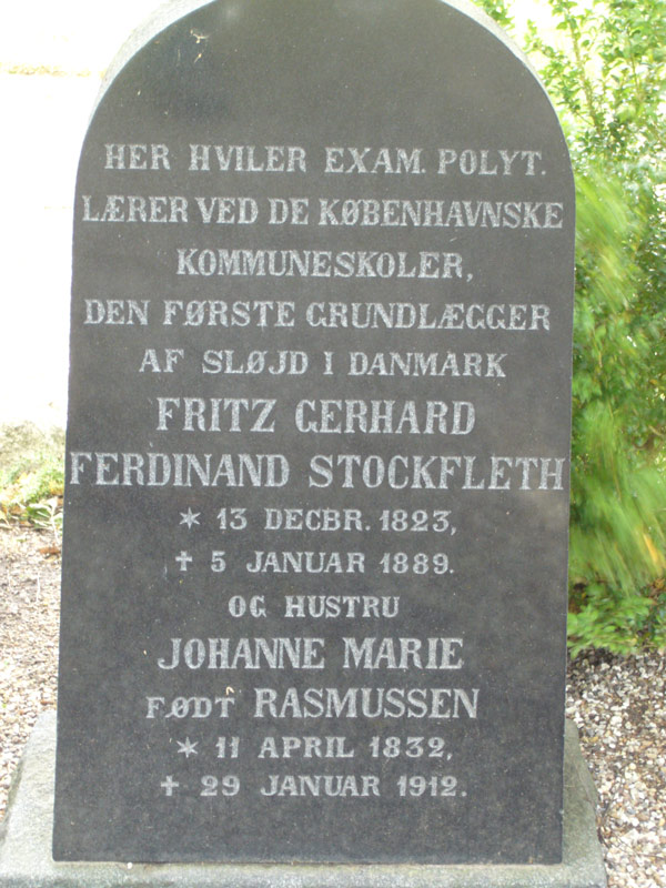 Grave of Fritz Stockfleth